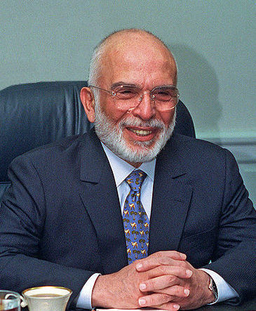 King Hussein I, of the Hashemite Kingdom of Jordan, at a meeting with US Secretary of Defense William S. Cohen in the Pentagon